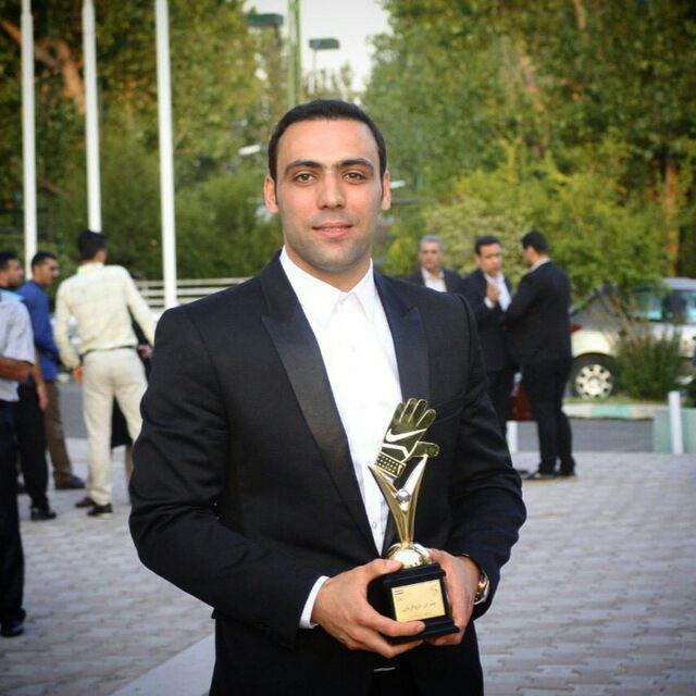 sepehr mohammadi won nominee of the best goalkeeper of iranian futsal super league for the second time in a row